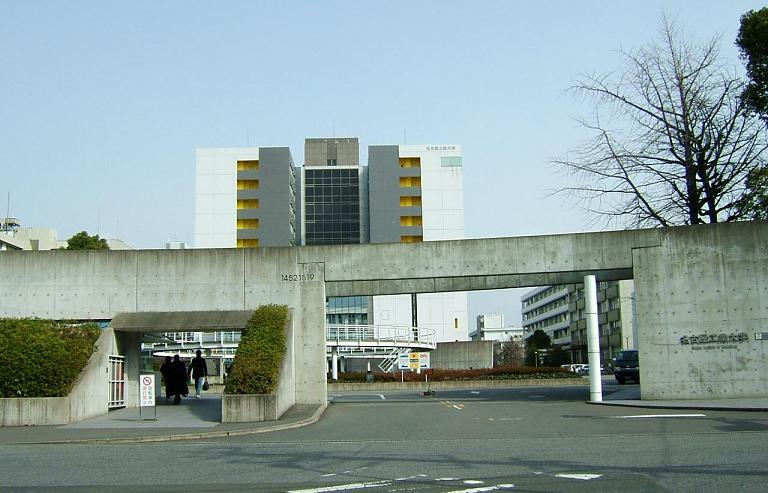 The Nagoya Institute of Technology (名古屋工業大学, Nagoya Kōgyō Daigaku?, abbreviated to 名工大 Meikōdai) is a highest-level educational institution of technology in Japan